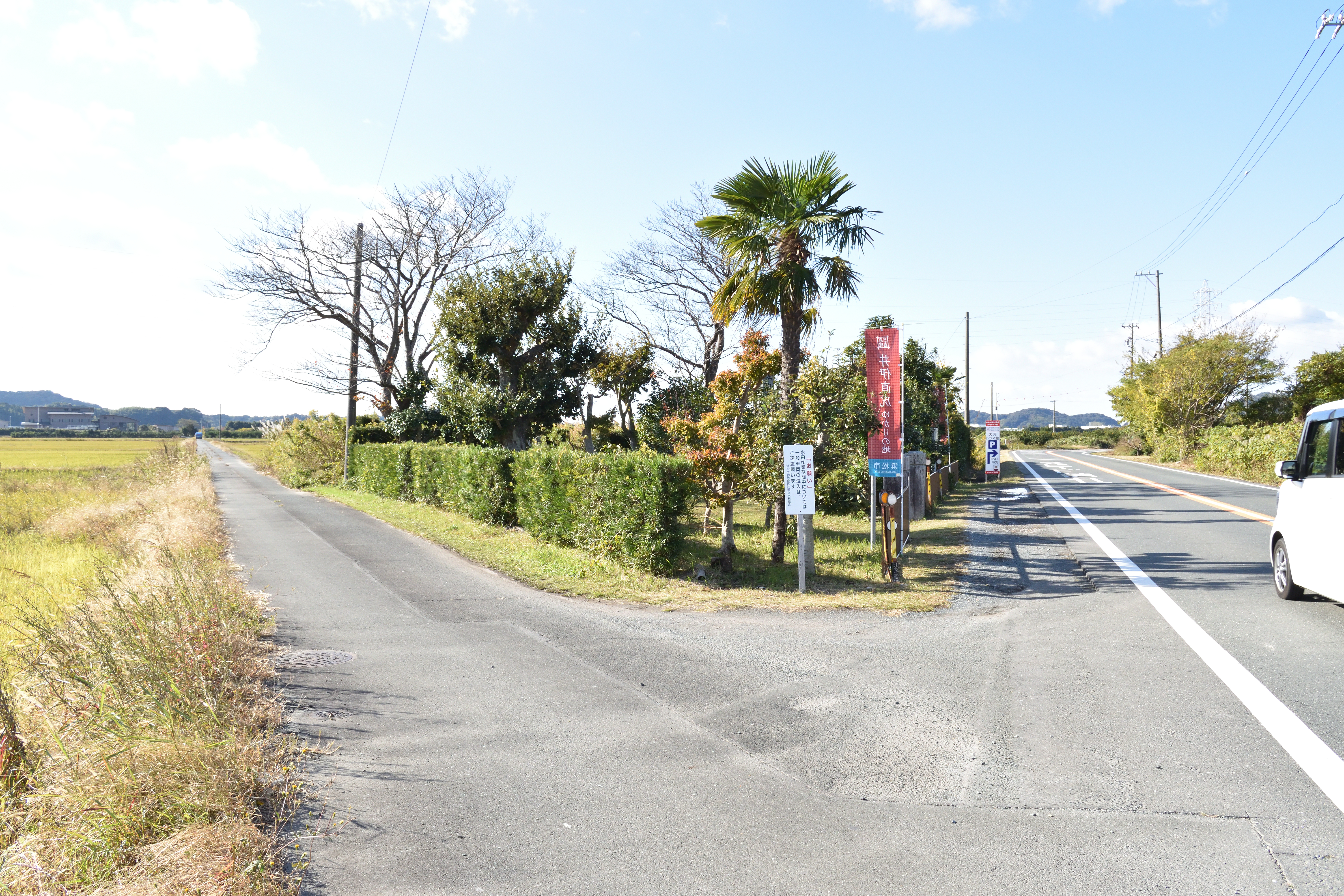 Ruins of Horikawa Castle in Hamamatsu City, Shizuoka Prefecture, Japan.